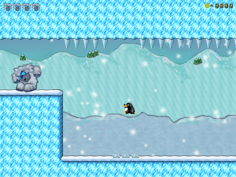 Tux fighting the Yeti boss in the video game SuperTux